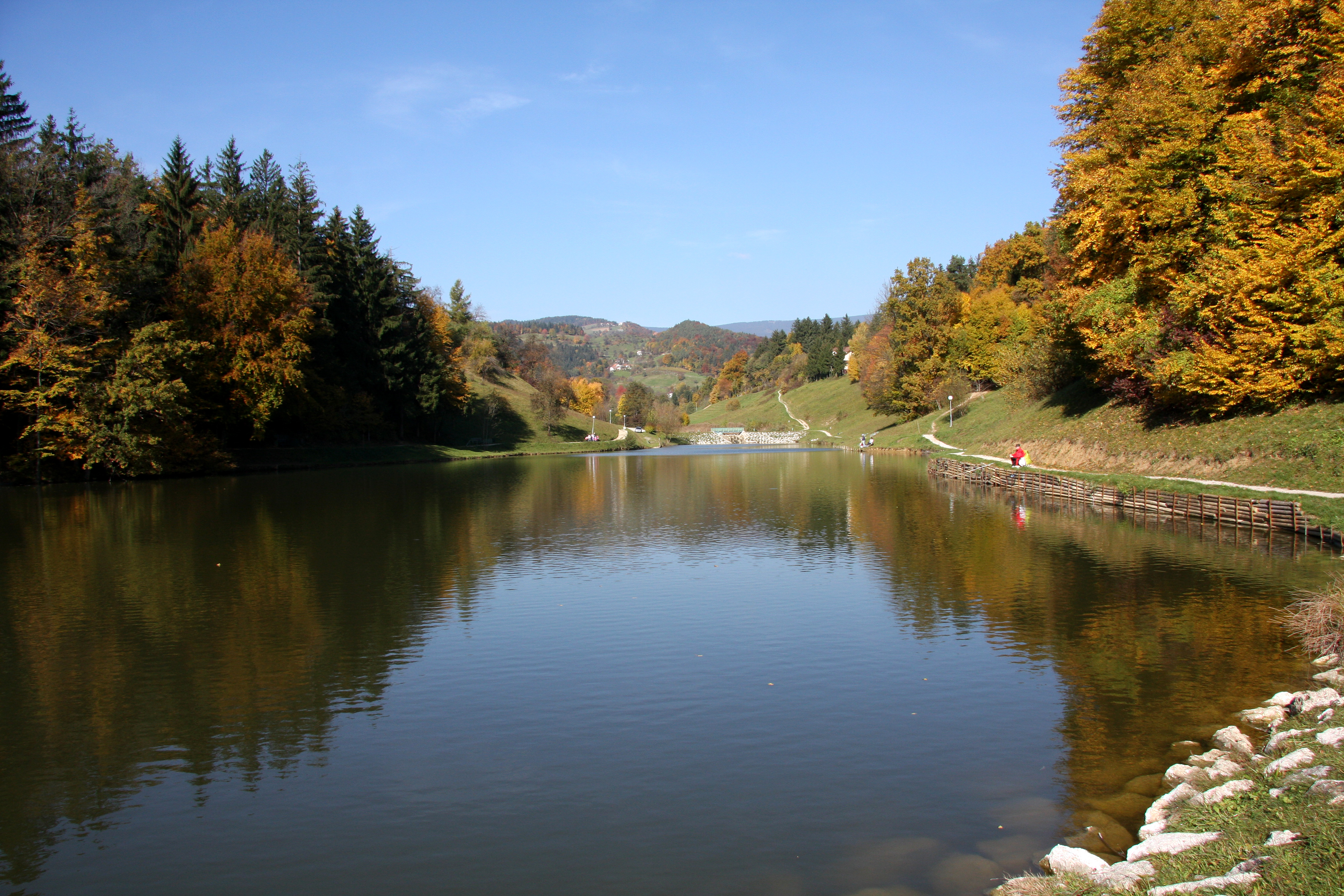 Lake Zreče in autumn.